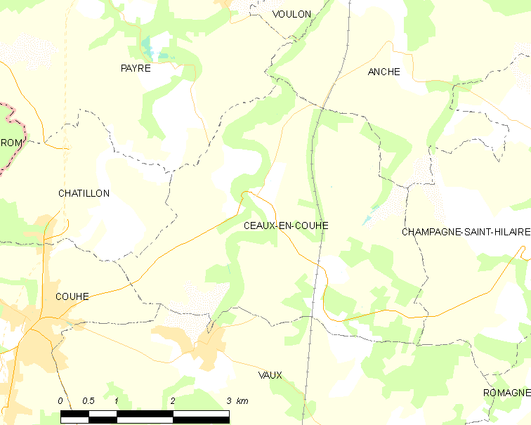 Map of French municipality Ceaux-en-Couhé